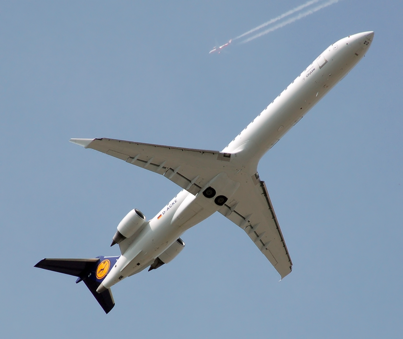 CityLine Bombardier CRJ900LR, of Lufthansa Regional, (D-ACKE), takes off from London Heathrow Airport, England.